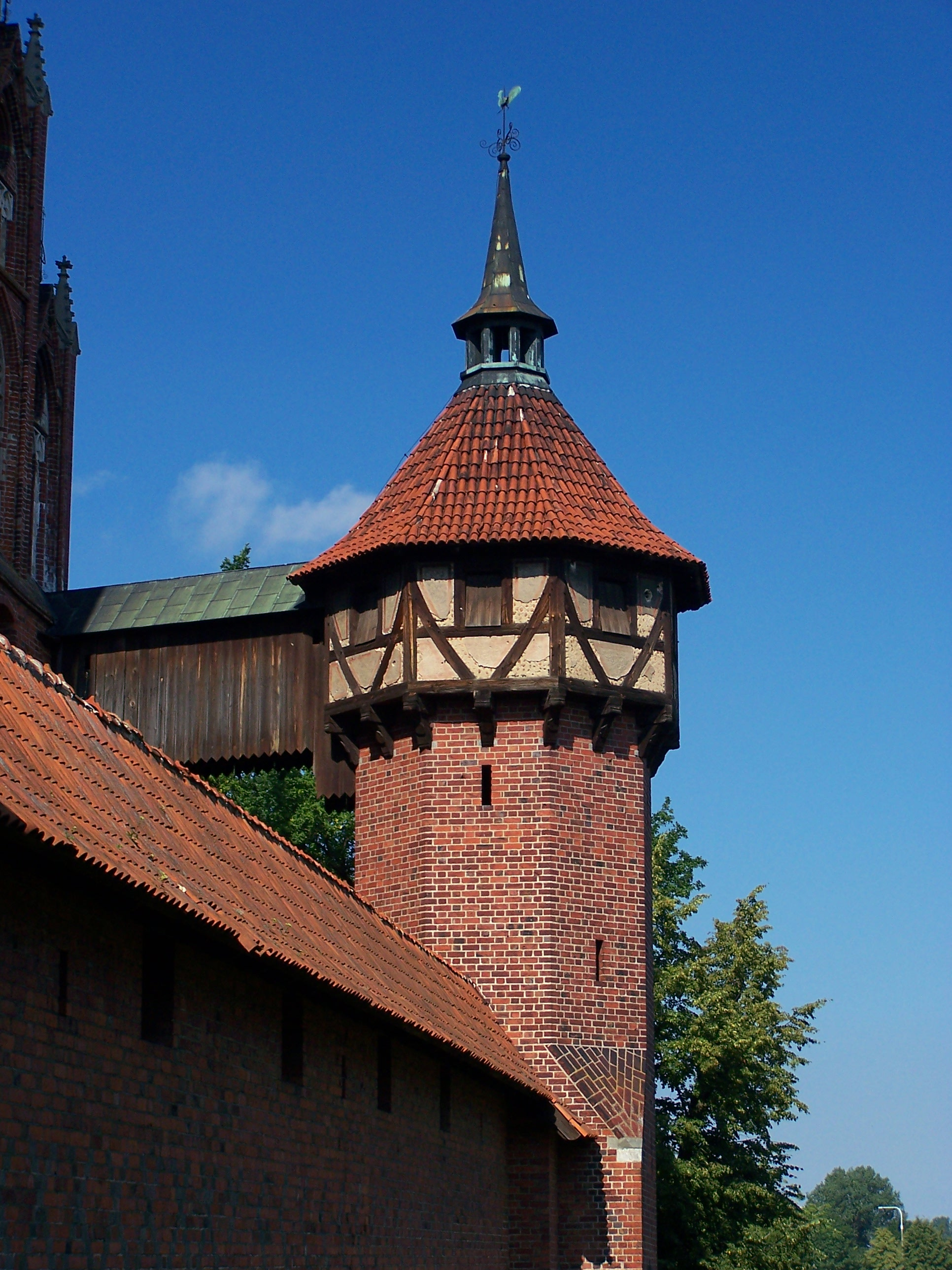 Guard tower in castle in Malbork (Poland).